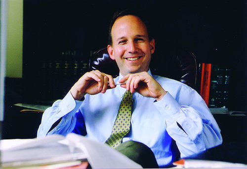 Jack Markell